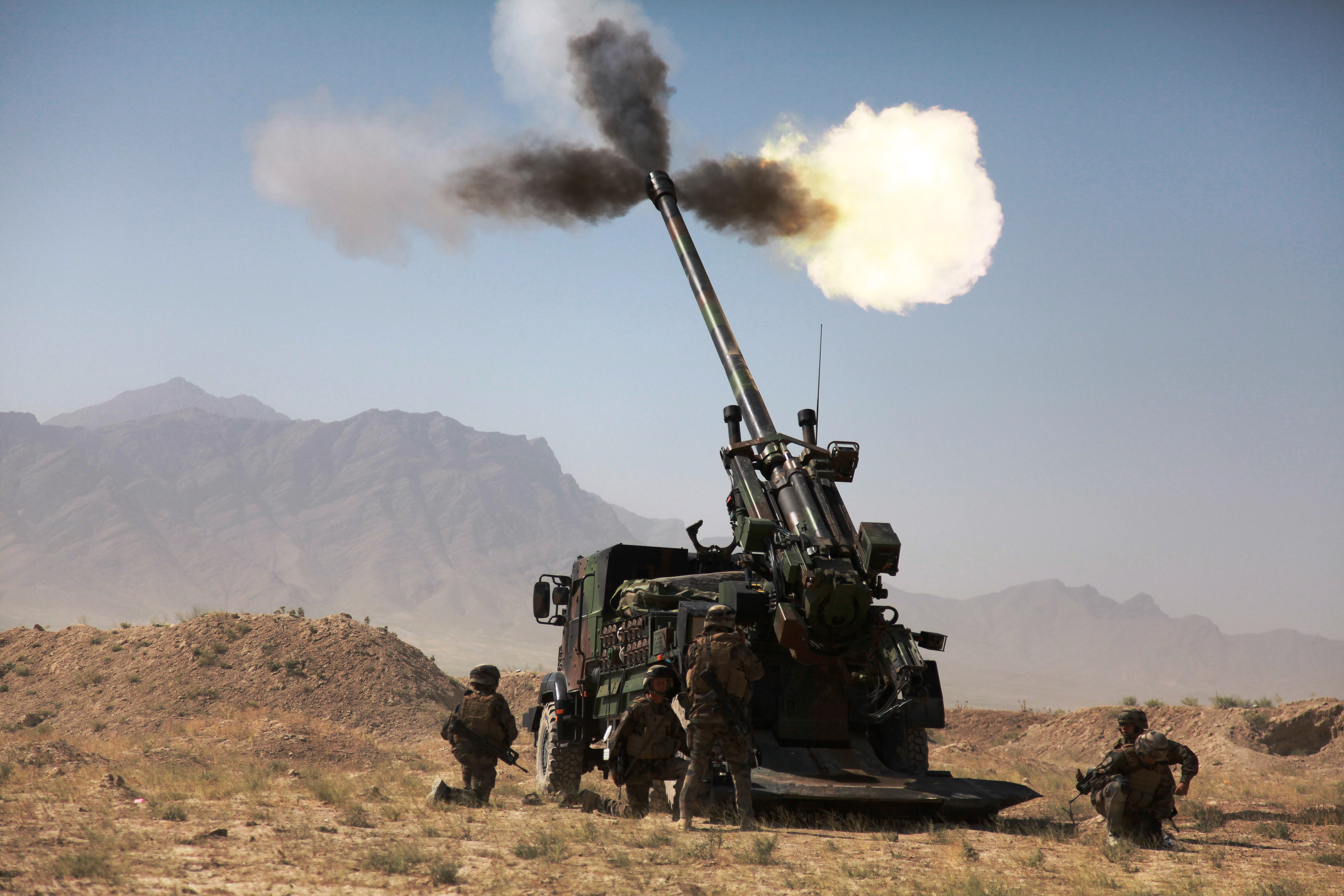 French soldiers conduct a live-fire exercise, with their Nexter Systems Caesar self-propelled wheeled armored vehicles, outside of Bagram Airfield, Afghanistan, August 14, 2009.